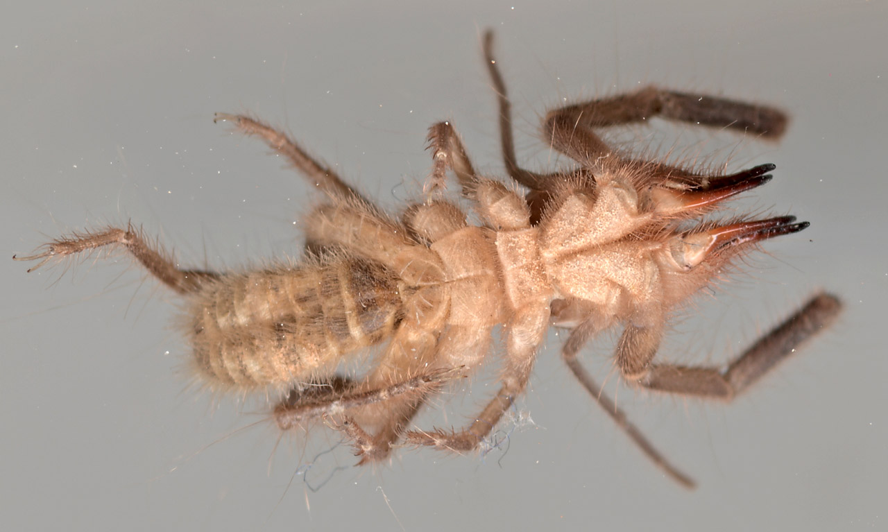 Vertral view of dead specimen of Gluvia dorsalis (Arachnida: Solifugae: Daesiidae), dry collection. Photo taken in Madrid.